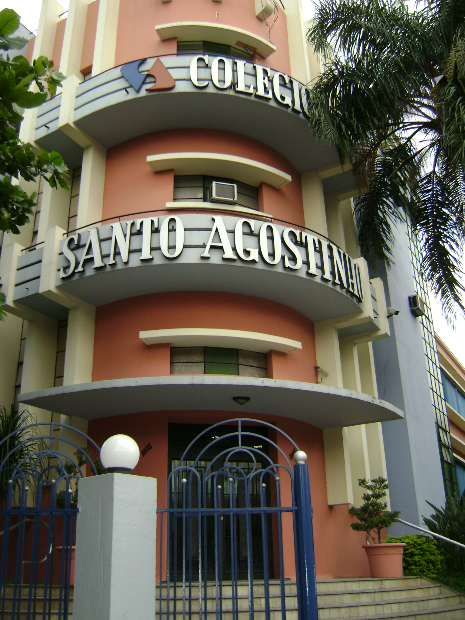 Entrance of Colégio Santo Agostinho, in Belo Horizonte, Brazil.